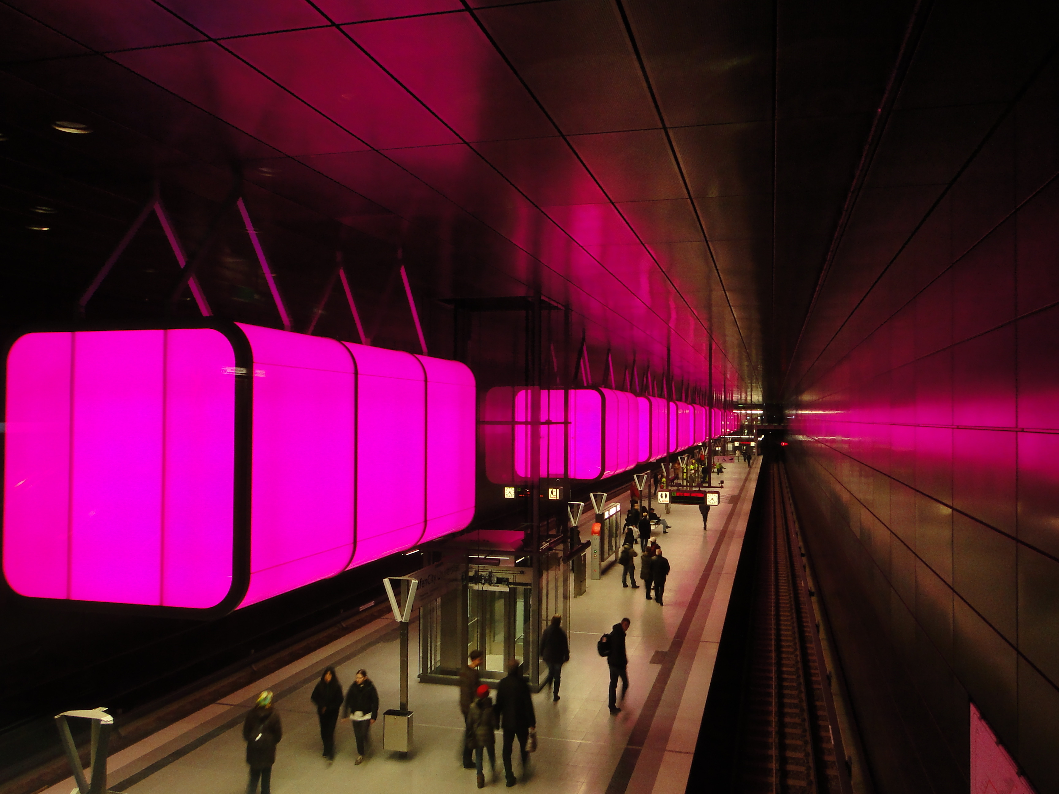 Lights at subwaystation HafenCity Universität (HafenCity University) in Hamburg